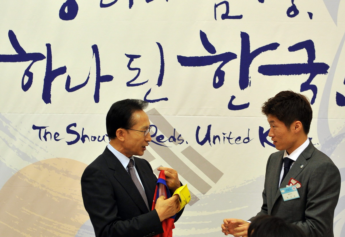 President Lee Myung-bak invites the Korean World Cup team at the presidential office Cheong Wa Dae in Seoul on July 6